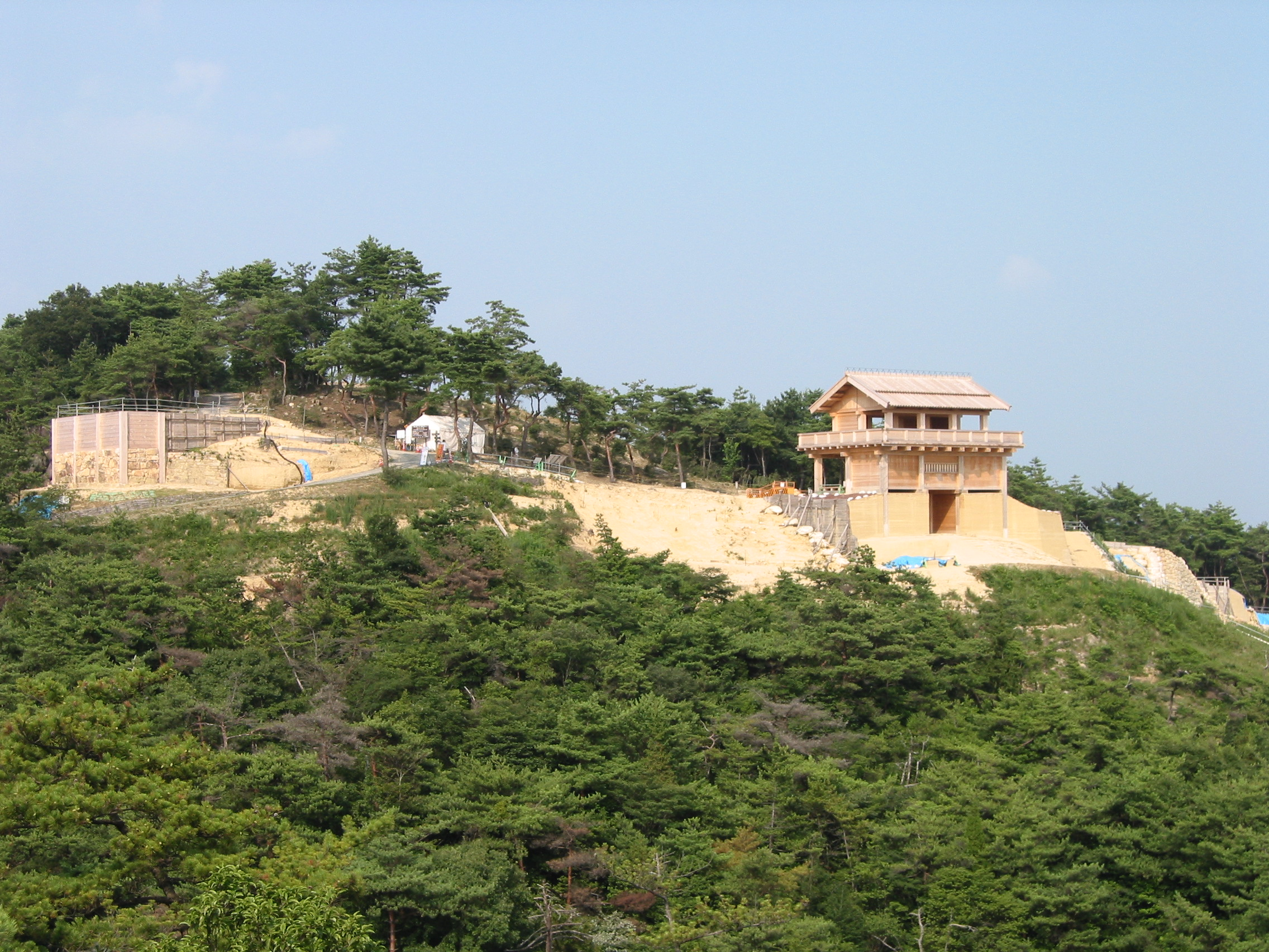 photo of Kinojō Nishi mon(western gate)area.Here was reconstructed in 2004.